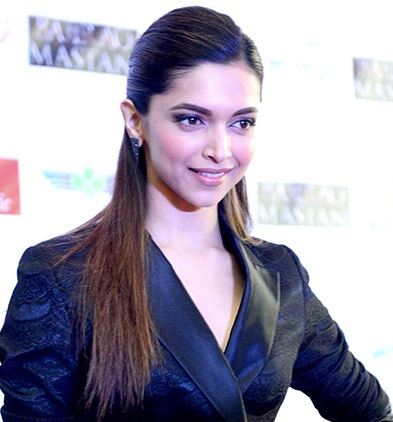 Deepika Padukone at the press conference of ‘Bajirao Mastani’